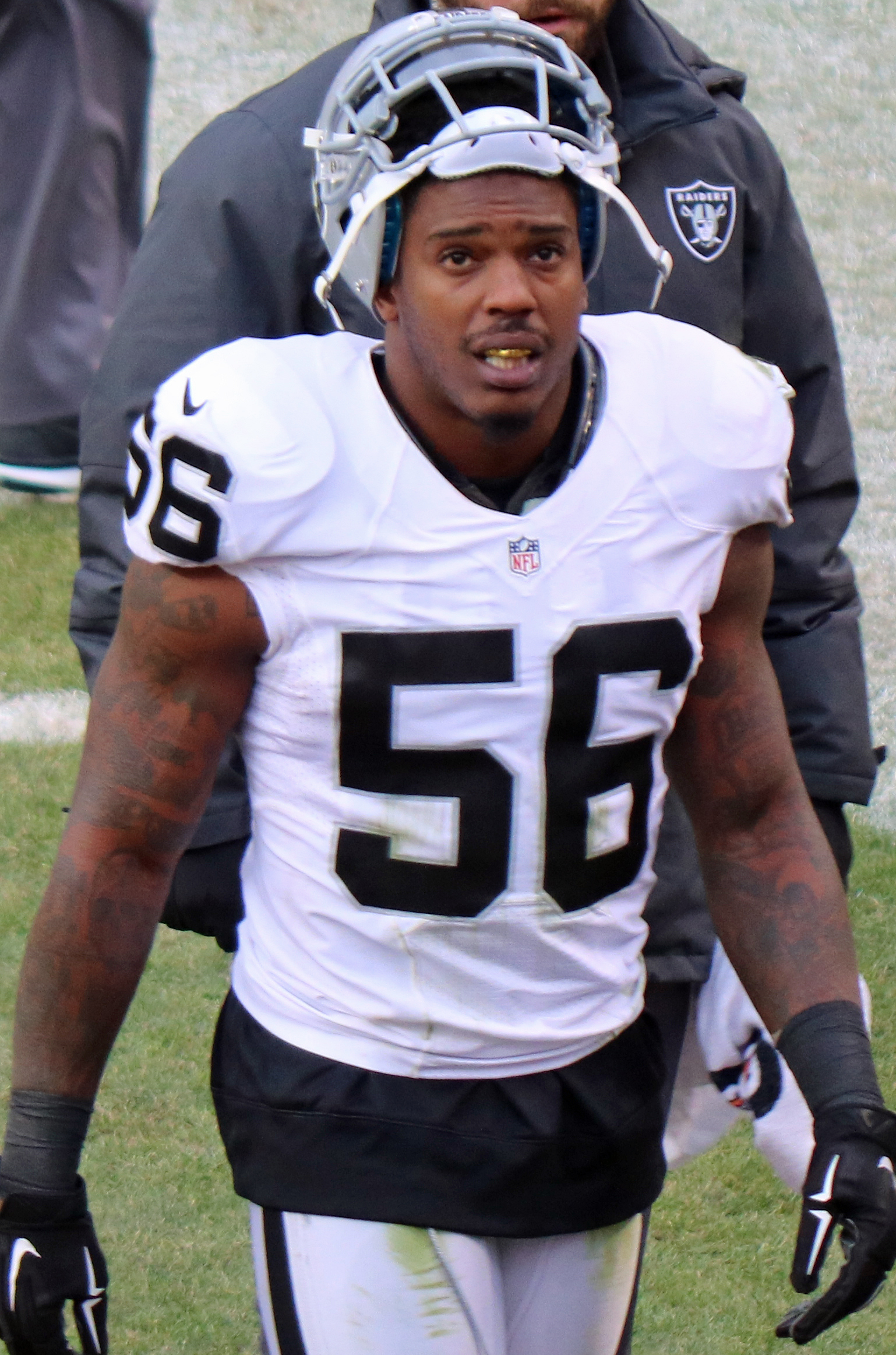 Daren Bates, a player on the National Football League.